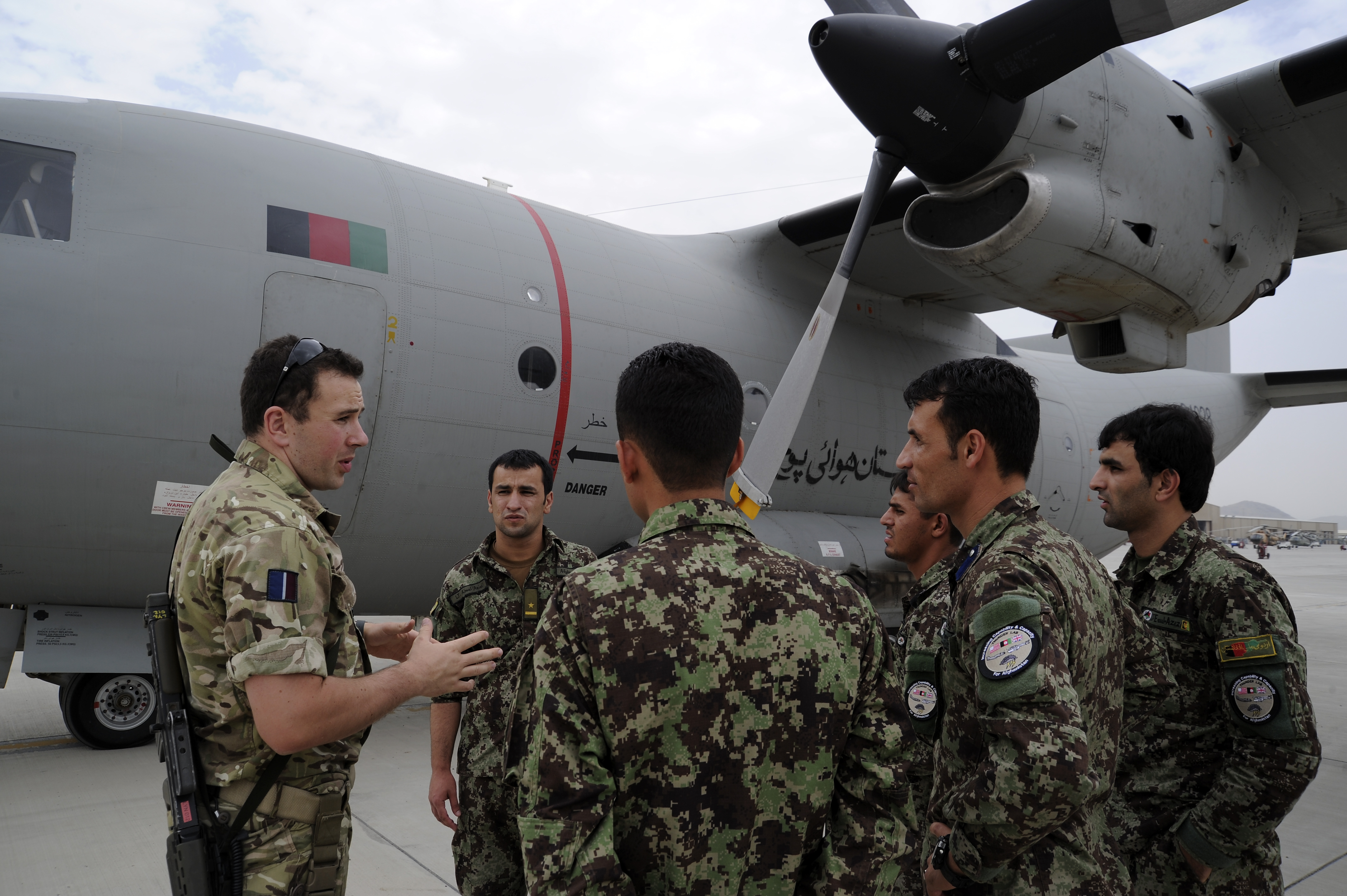 Royal Air Force Flight Lieutenant Luke Meldon explains the components of an Afghan Air Force C-27 Spartan to five Thunder Lab students July 24, 2011. The select students have been chosen to take aviation classes at the Lab based on their high English comprehension language exam scores. (U.S. Air Force photo by Staff Sgt. Matthew Smith)